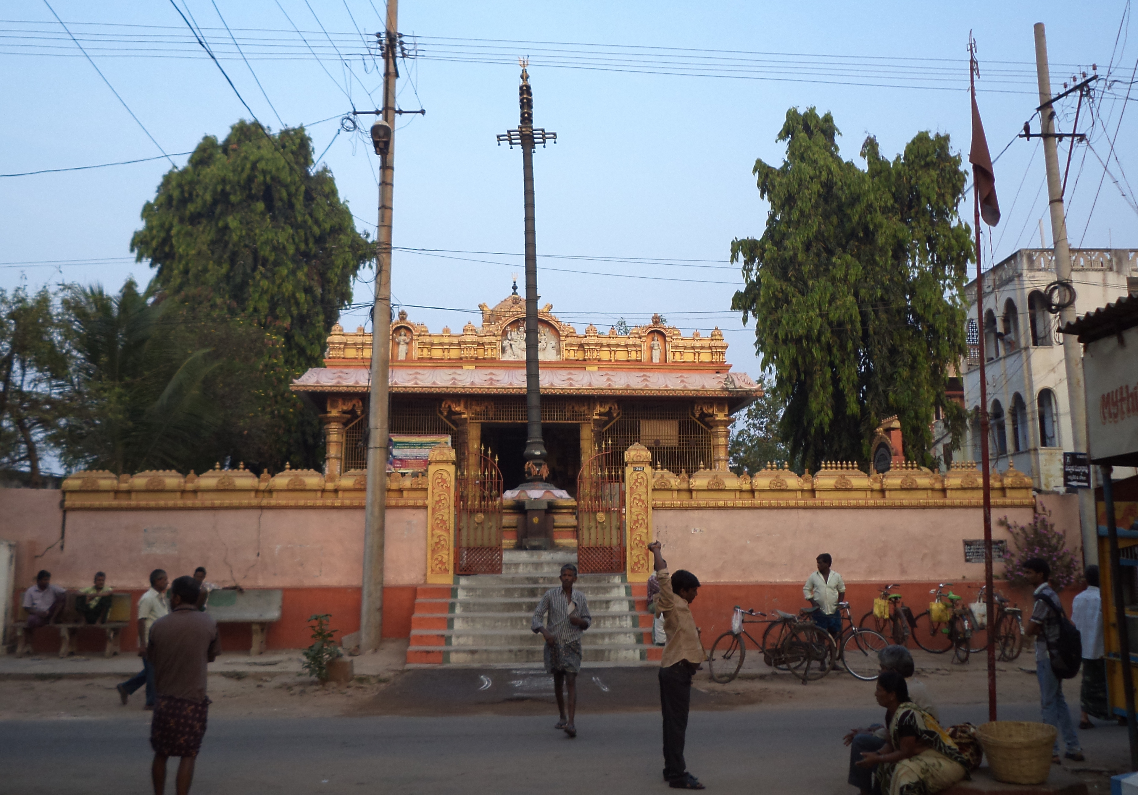 శ్రీ శివాలయము, కానూరు, విజయవాడ.